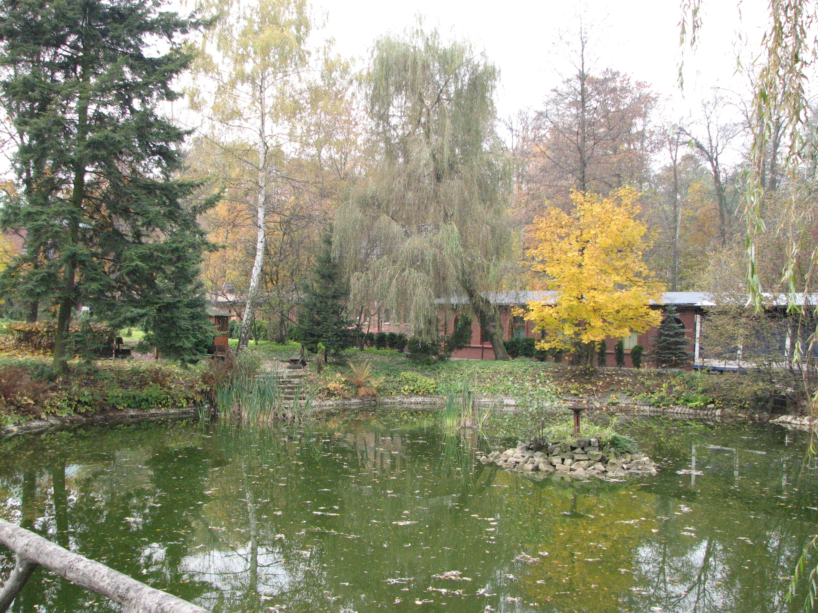 Garden of the Franciscan monastery in Katowice Panewniki, Poland